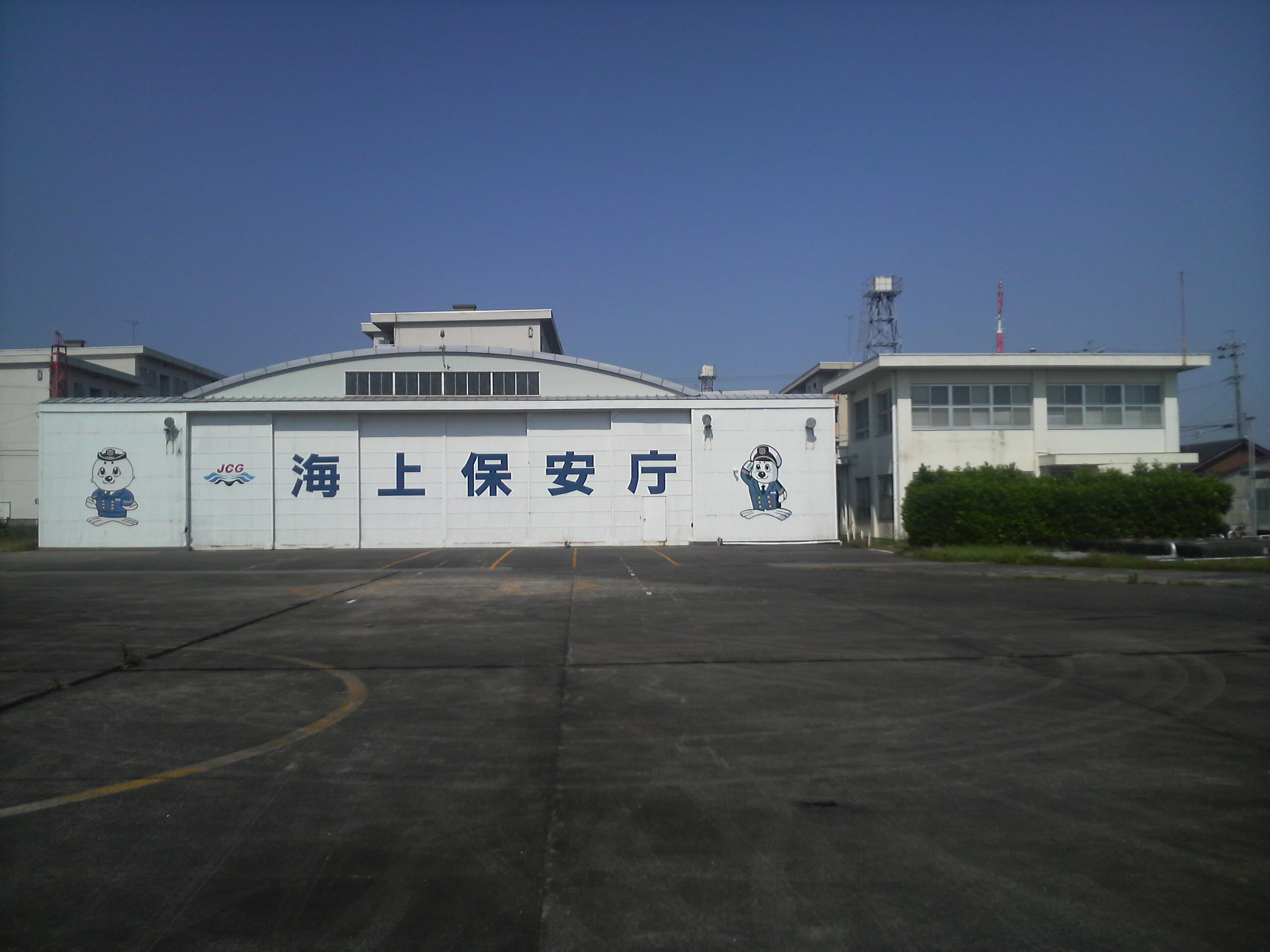 JCG Ise Air Staion in Ise city, Mie prefecture, Japan.It is closed now.